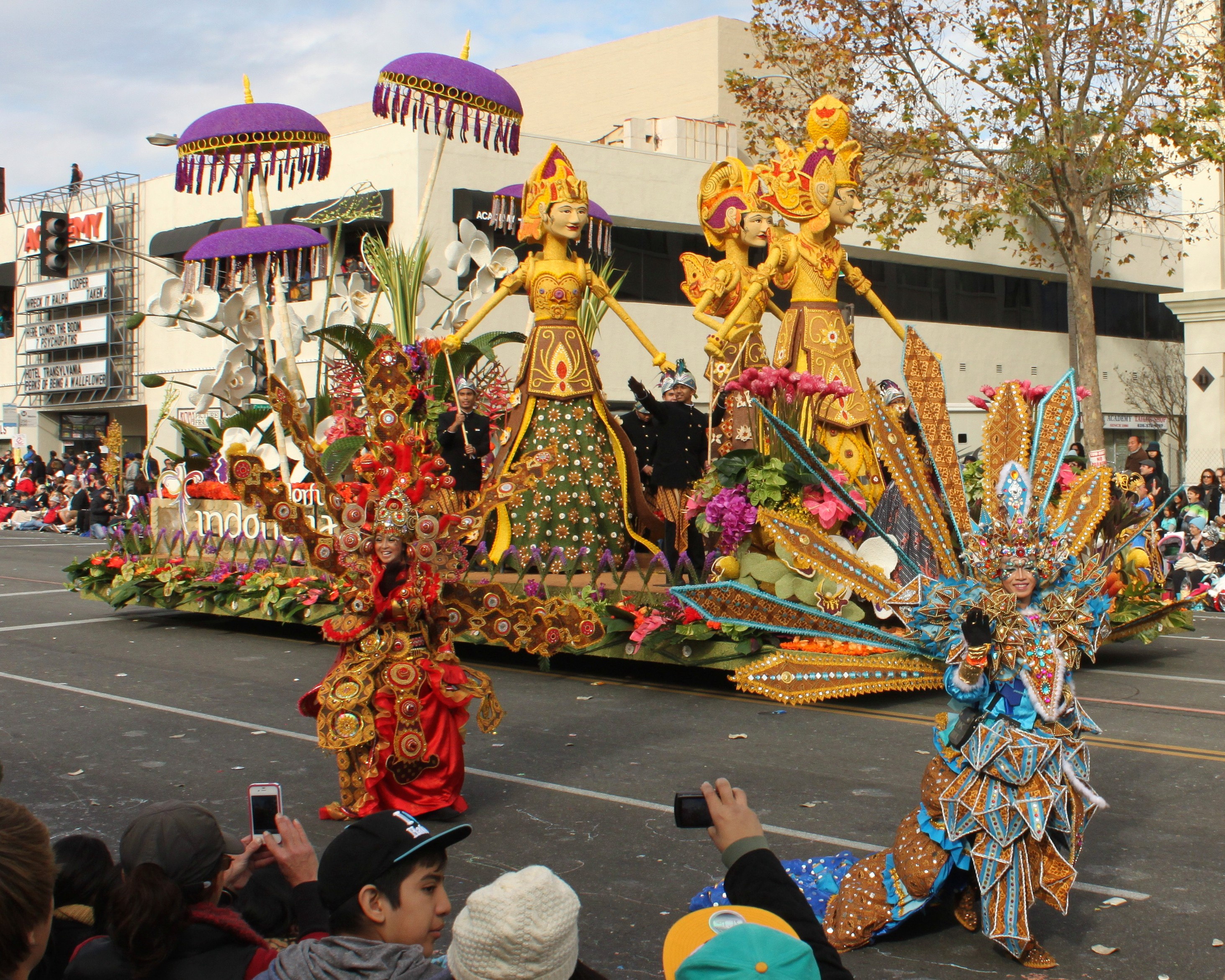 President Trophy Winner. 2013 Rose Parade Pasadena, California